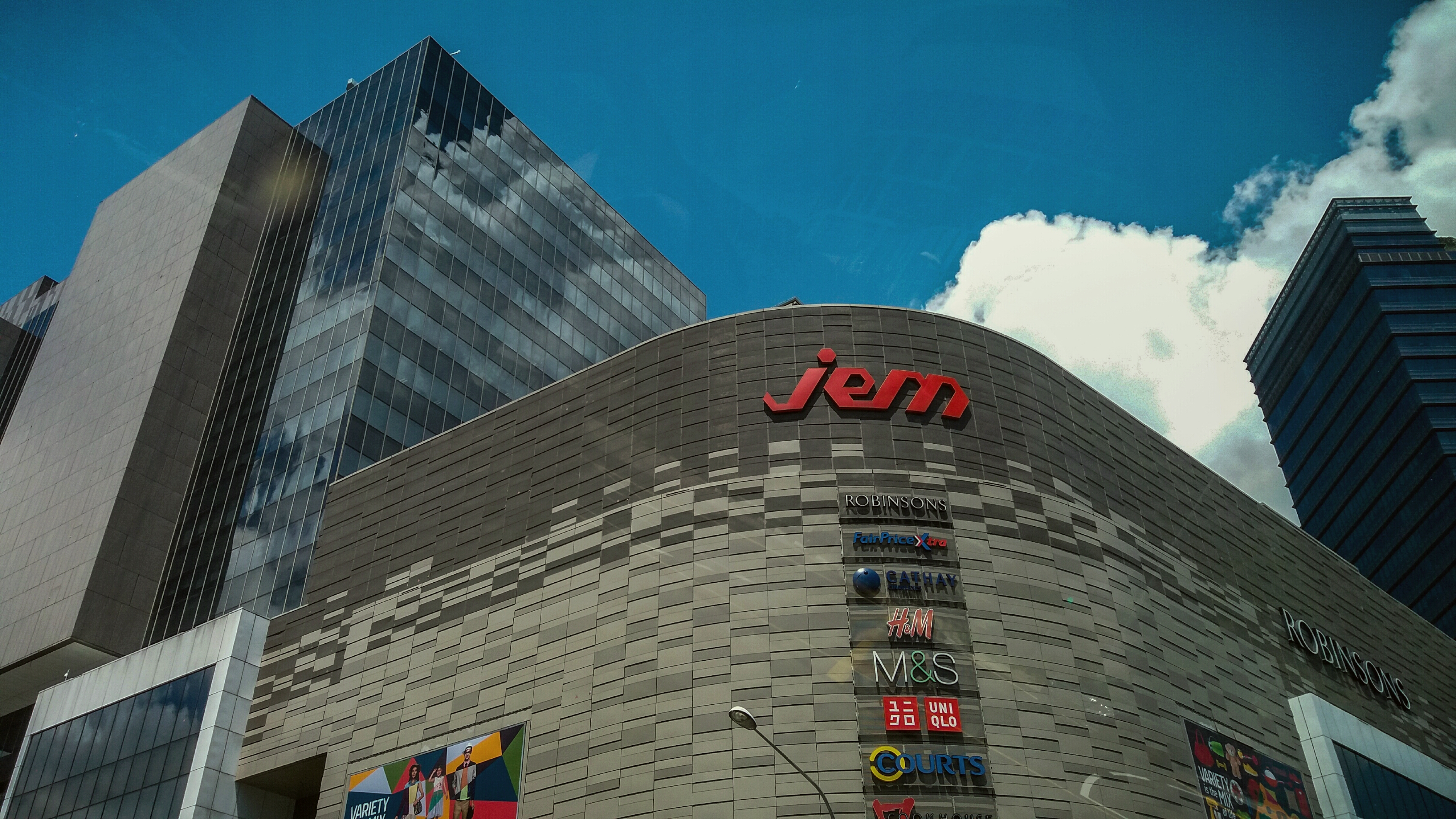 Jem shopping mall, taken from a bus, with Westgate tower in the background